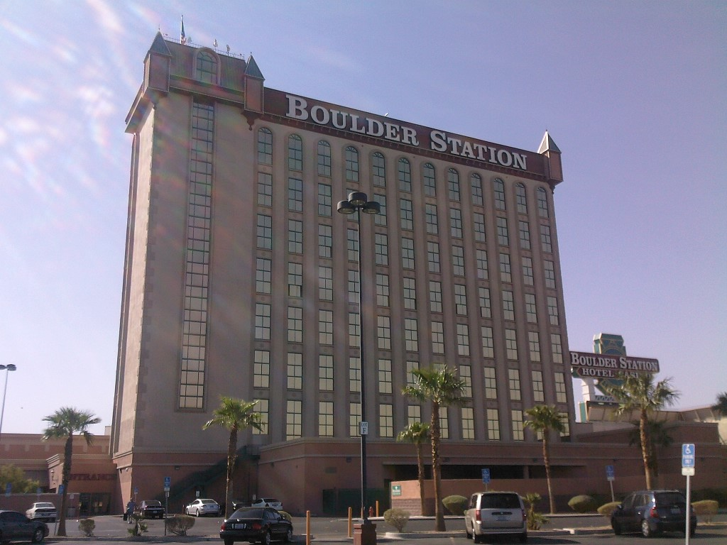 Looking southeast at the Boulder Station hotel tower in Sunrise Manor, Nevada.